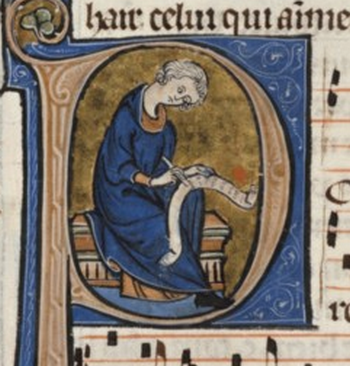 Theobald I of Navarre